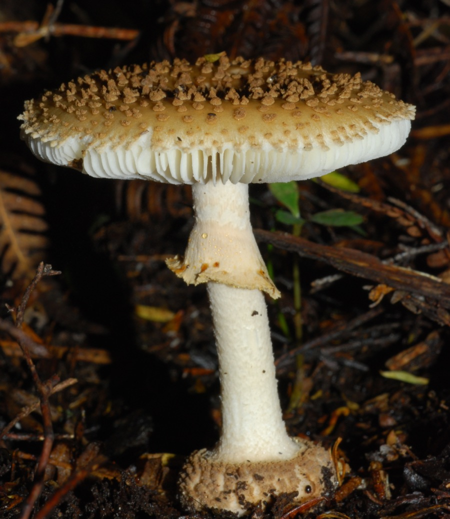 Amanita australis G. Stev. Location: Auckland, New Zealand Observation Notes: Found under Leptospermum scoparium in native New Zealand bush, mainly in autumn and the beginning of winter, very distinguishable conical warts usually grouped near the centre of the pileus! For more information about this, see the observation page at Mushroom Observer.